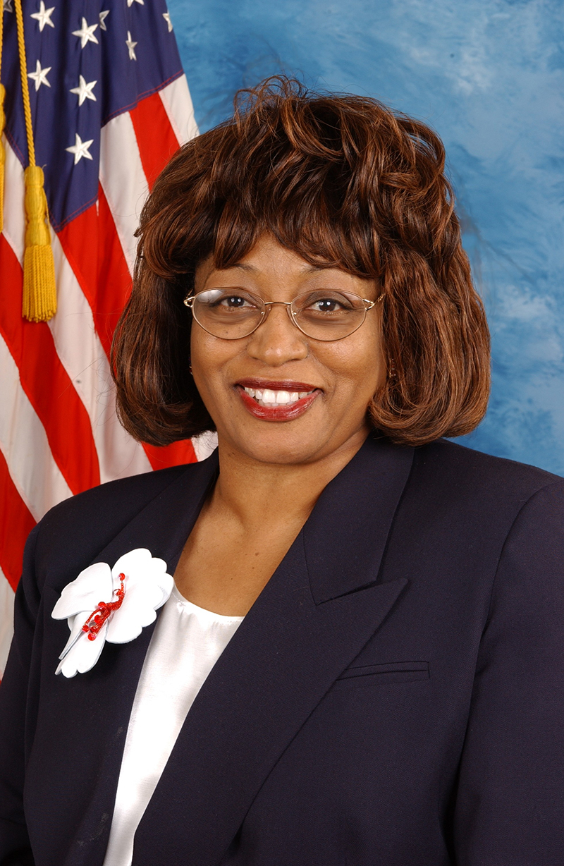 Corrine Brown, member of the United States House of Representatives.